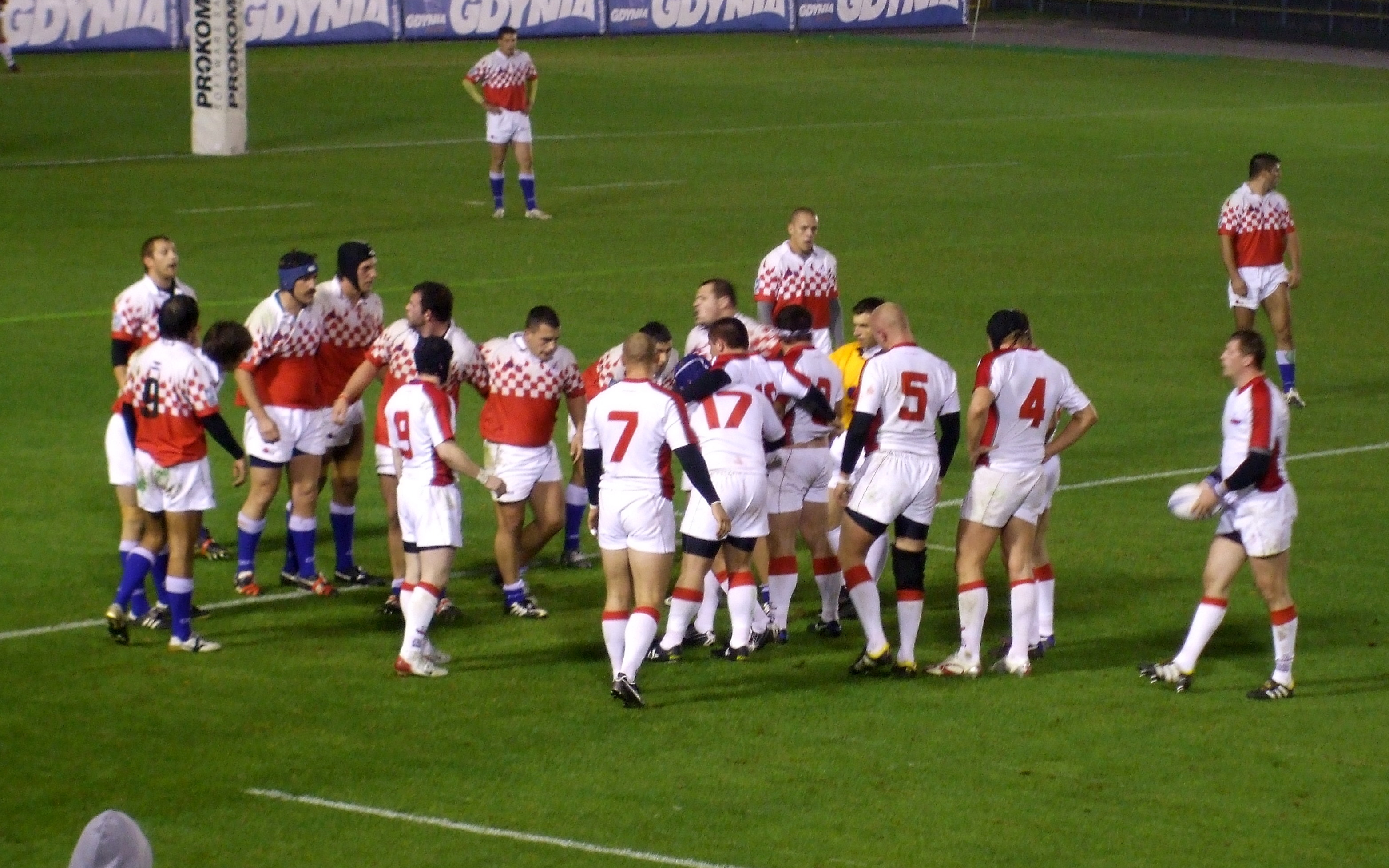 Rugby union match between Poland and Croatia in Gdynia in European Nations Cup 2B. Croatia won 15:14.